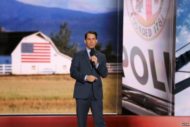 Scott Walker speaks on the third-day of the 2016 RNC